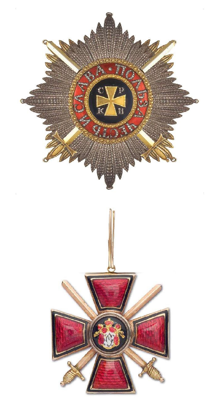 Order of St. Vladimir